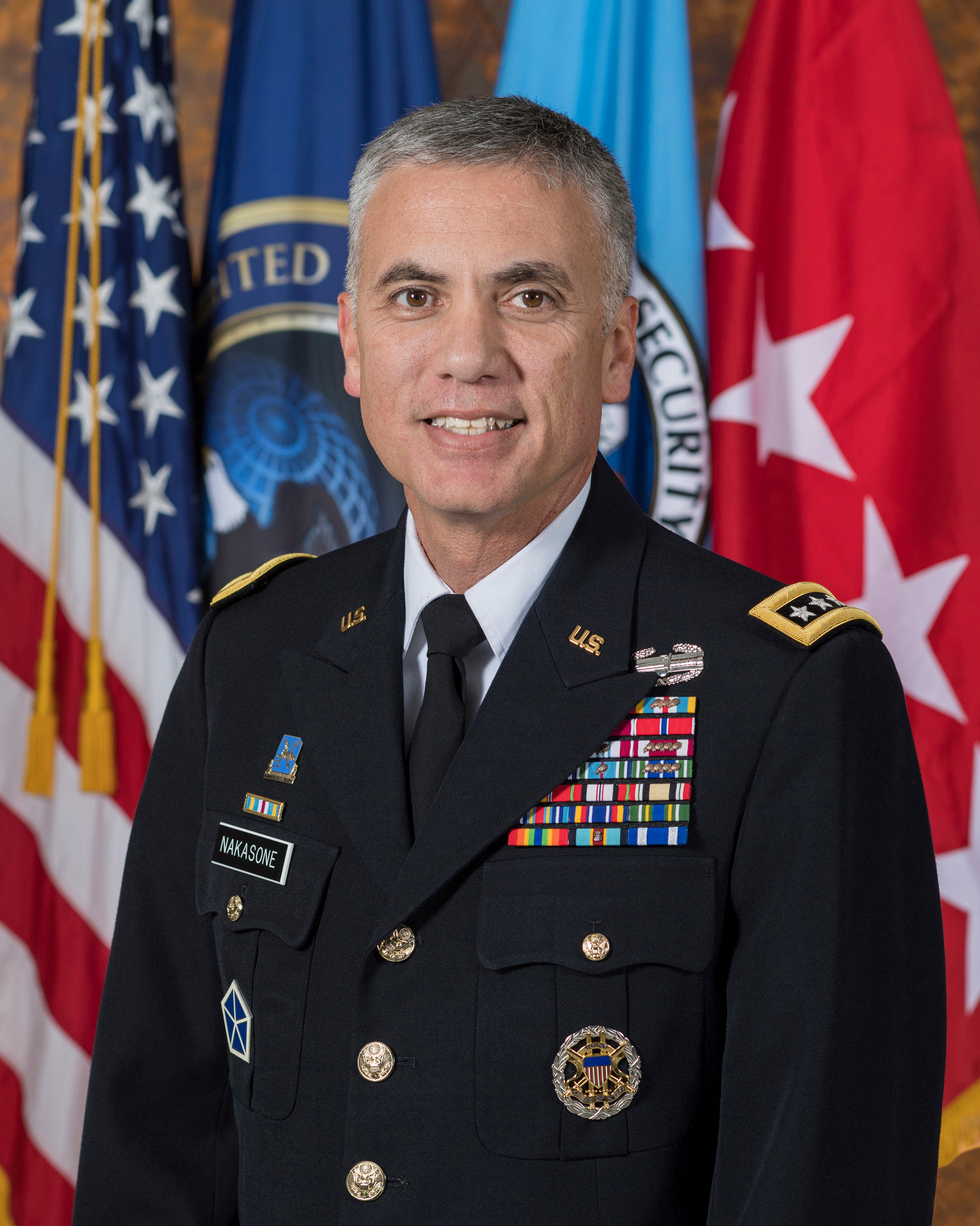 General Paul M. Nakasone, USACommander, U.S. Cyber Command,Director, National Security Agency andChief, Central Security Service